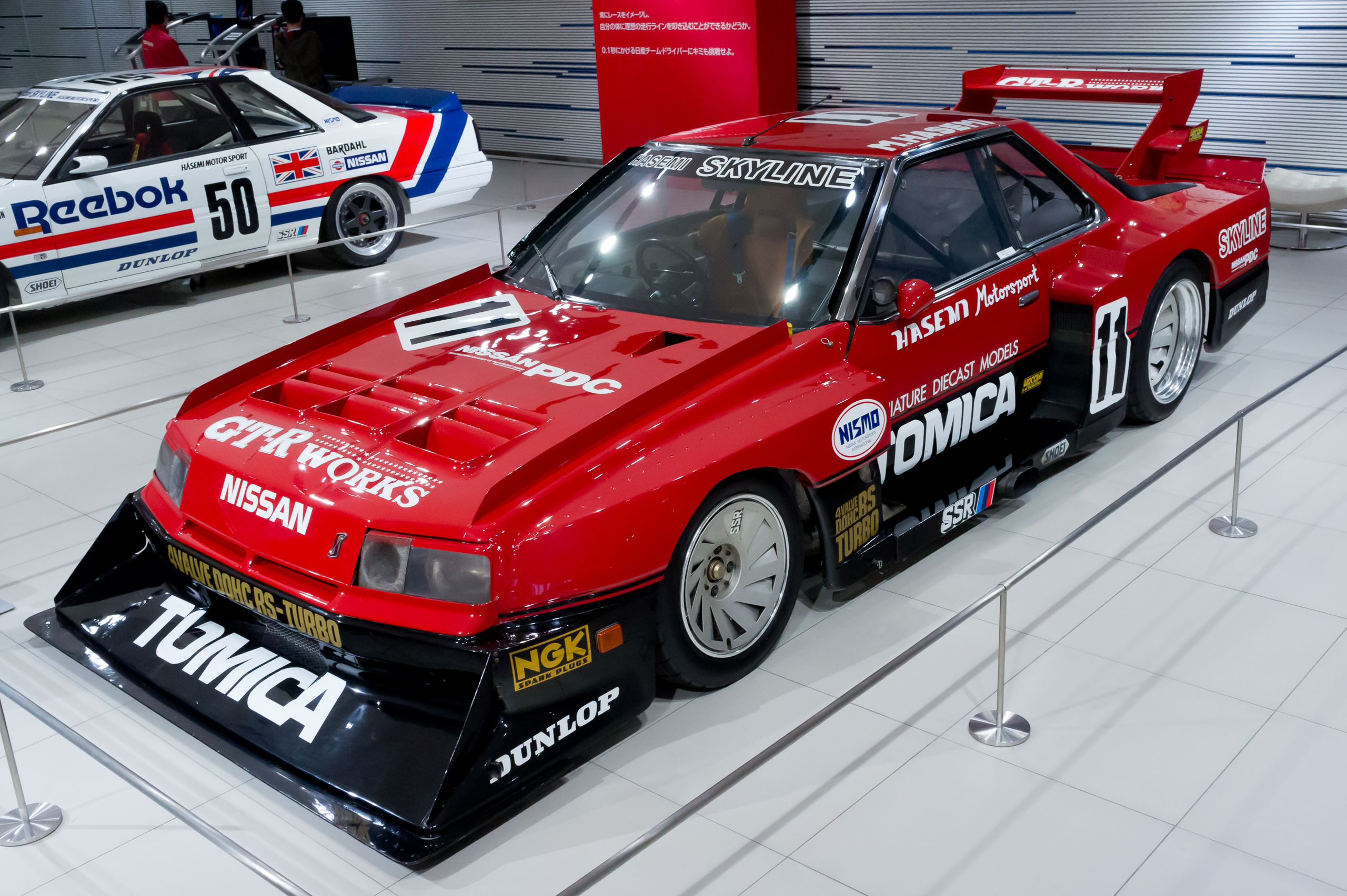 1982 Tomica Skyline (KDR30)